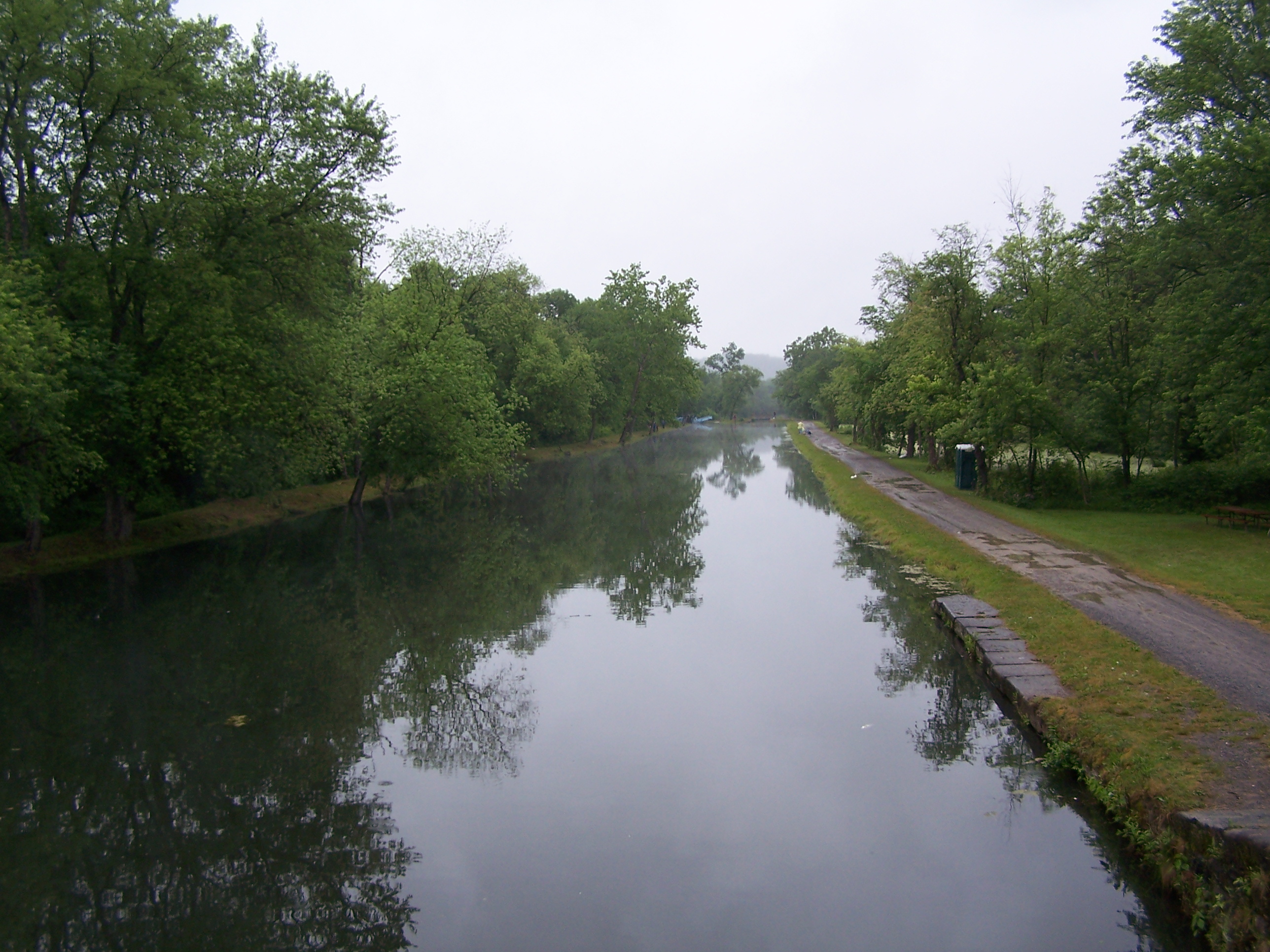 Lock 69 pool along the Chesapeake & Ohio Canal near Oldtown, Maryland.